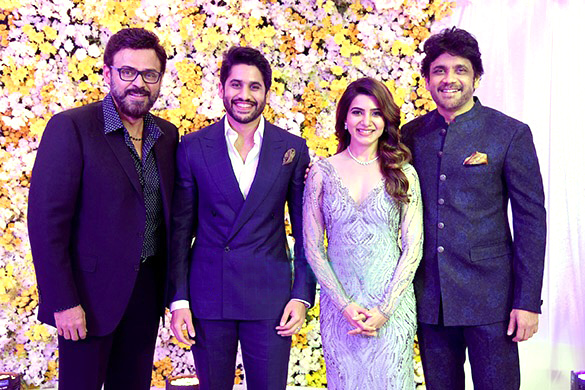 Samantha with Naga Chaitanya Akkineni and others on her wedding reception at Hyderabad